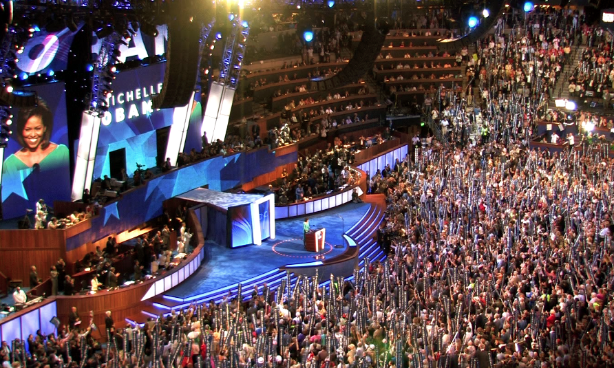 Michelle Obama speaks at Democratic National Convention